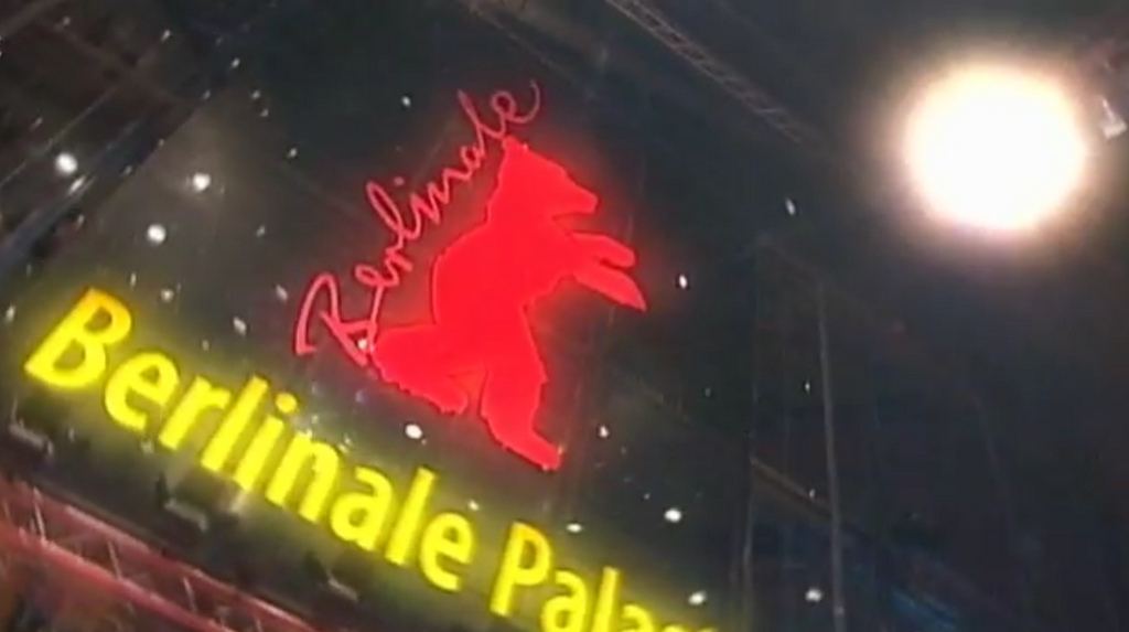 Marquee for the Berlinale 2011, Berlin International Film Festival